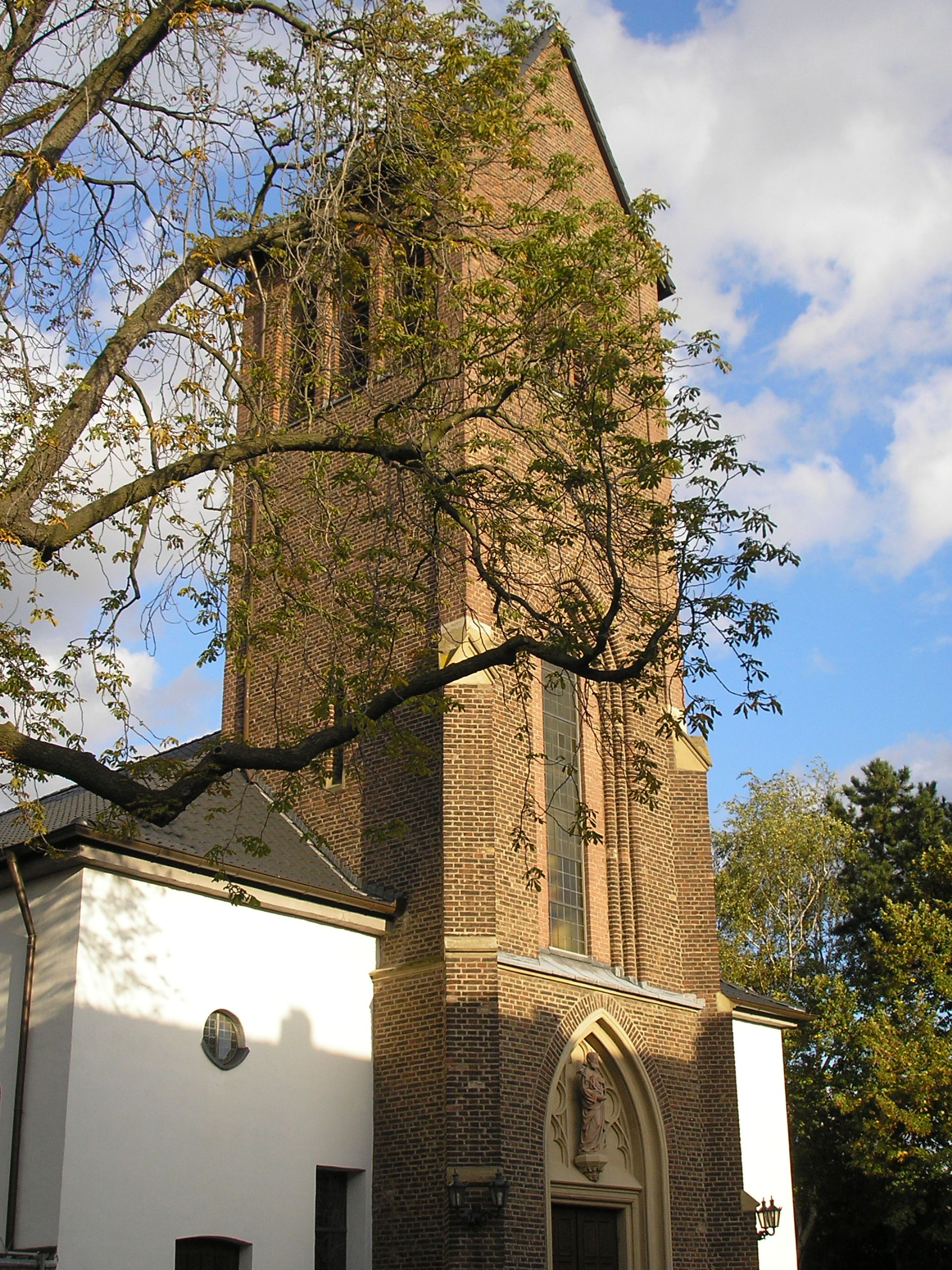 Church St. Joseph, Cologne-Poll